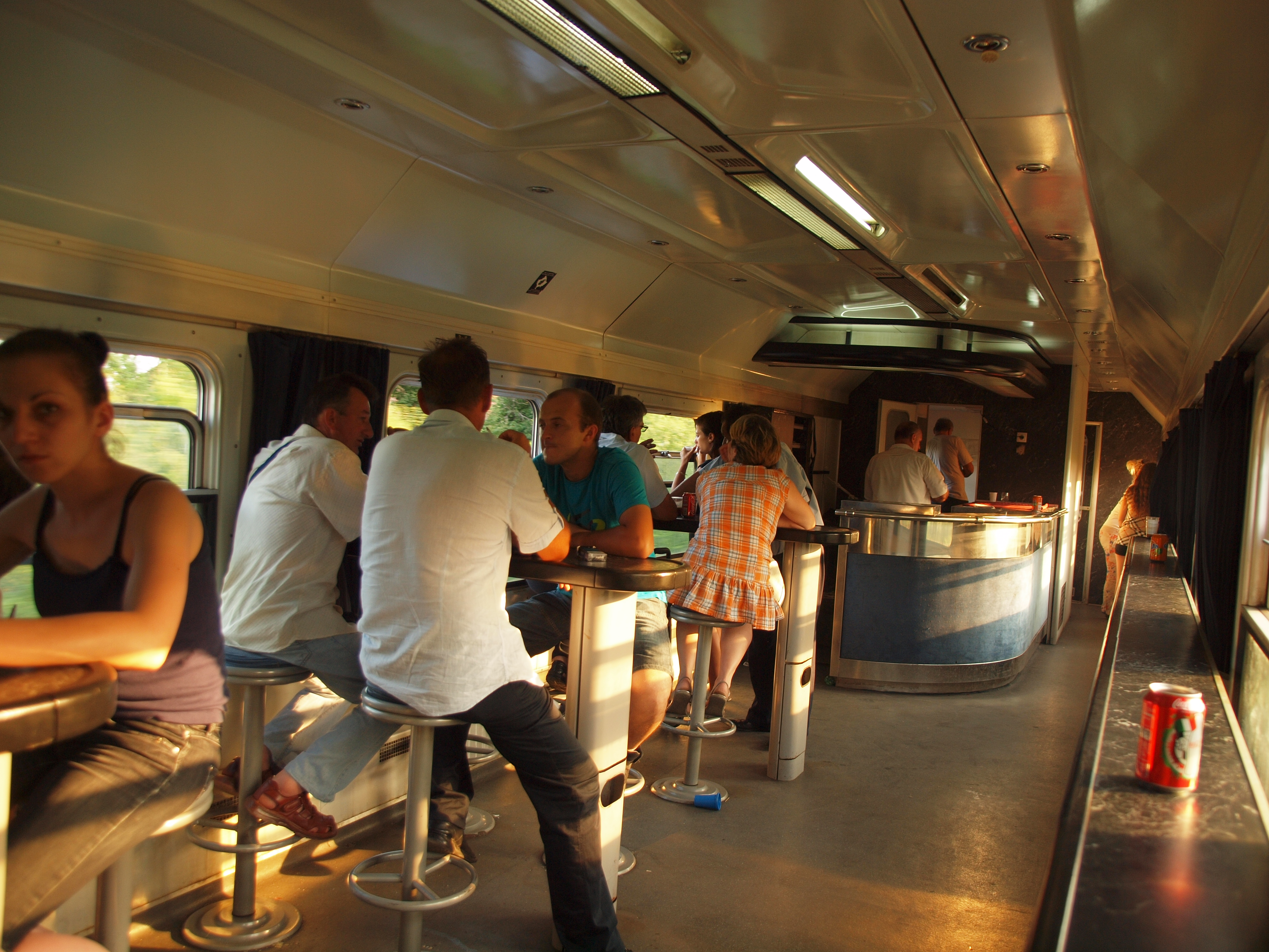 Belgrade-Bar railway